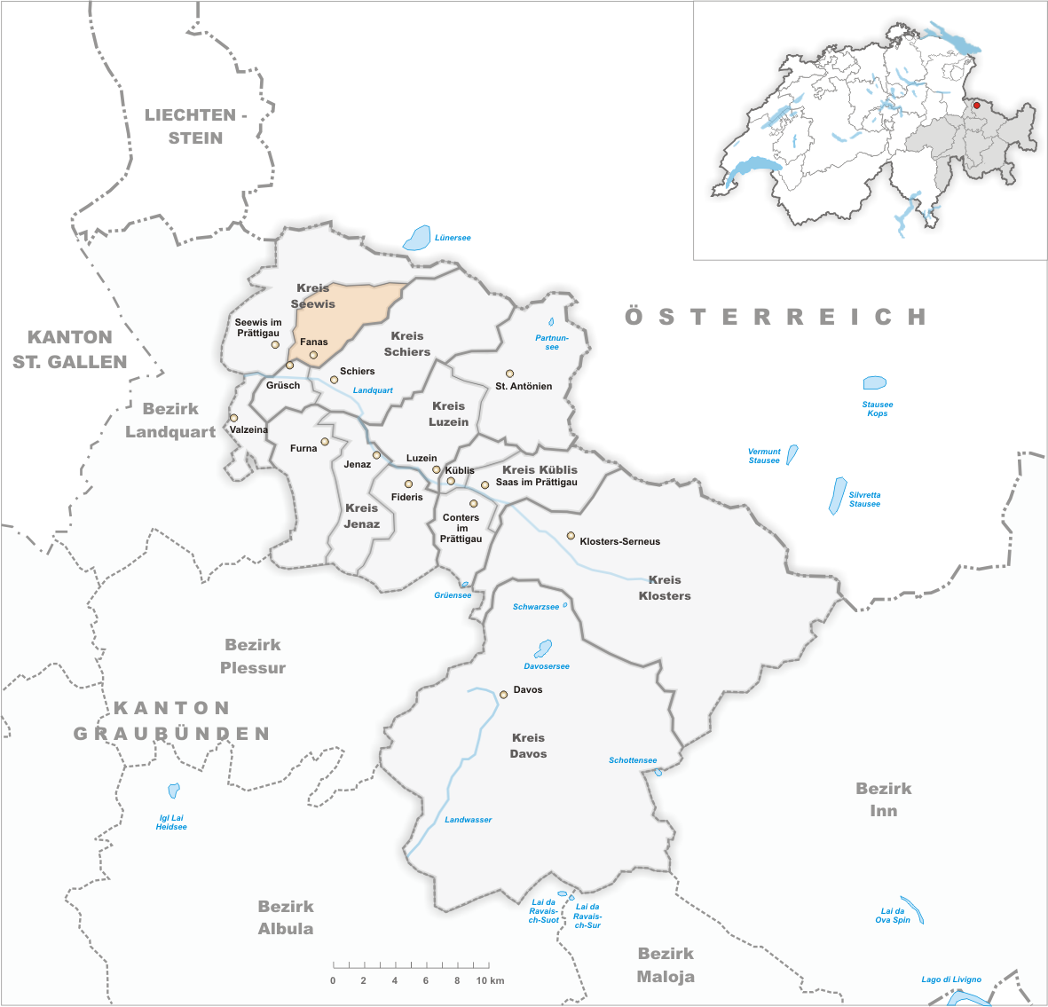 Municipality Fanas